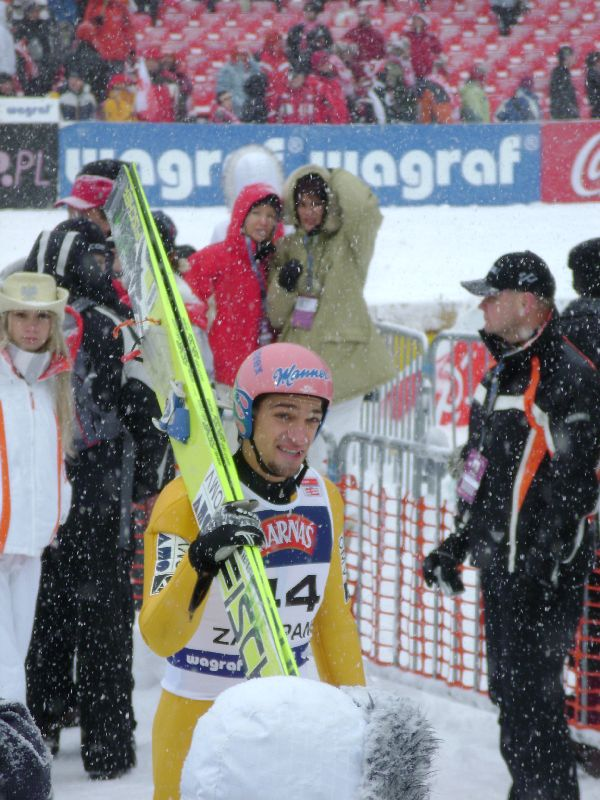 ski jumper Andreas Kofler from Austria during the World Cup in Zakopane on 27-1-2008